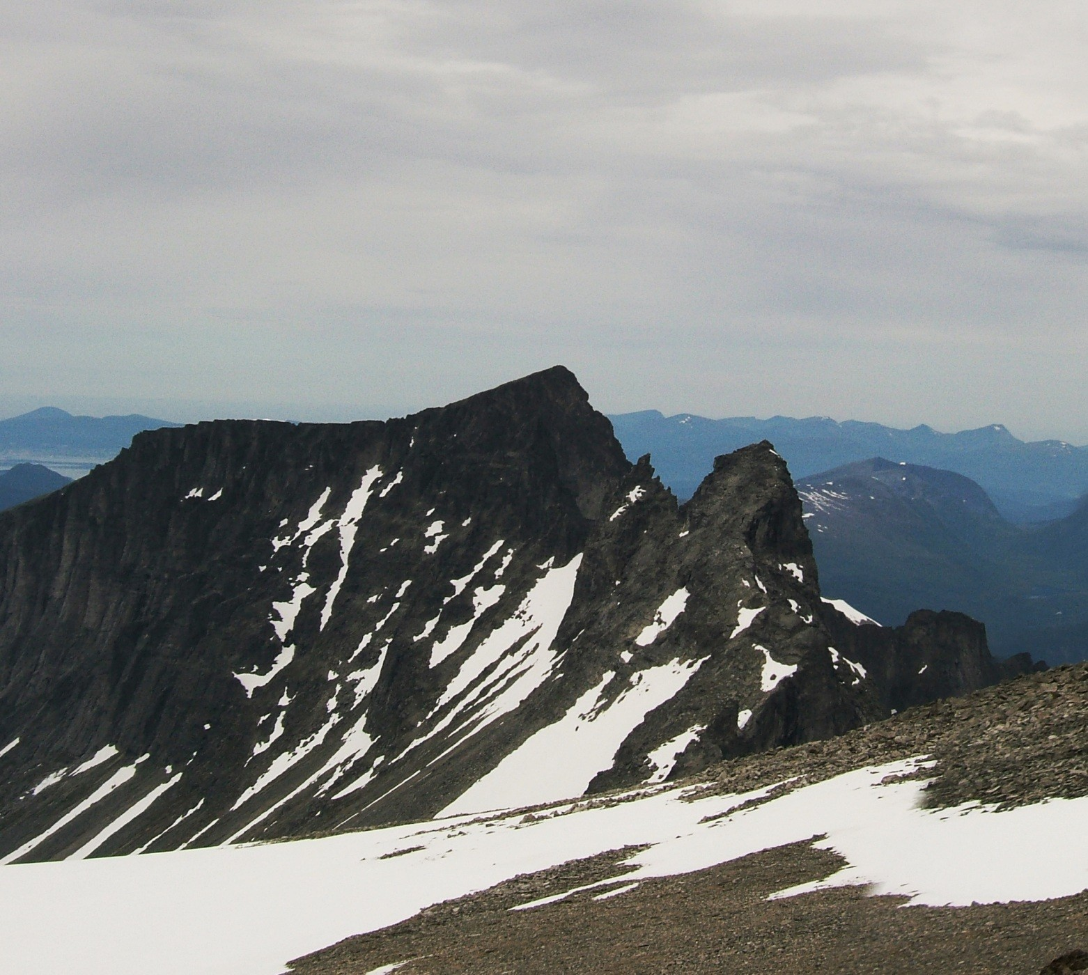 Store Trolltind as seen from Breitinden. Store Trolltinden is the highest point along the ridge Trollryggen, and the cliff on the other side of the mountain (not seen in this picture) is Trollveggen, the highest vertical cliff in Europe.